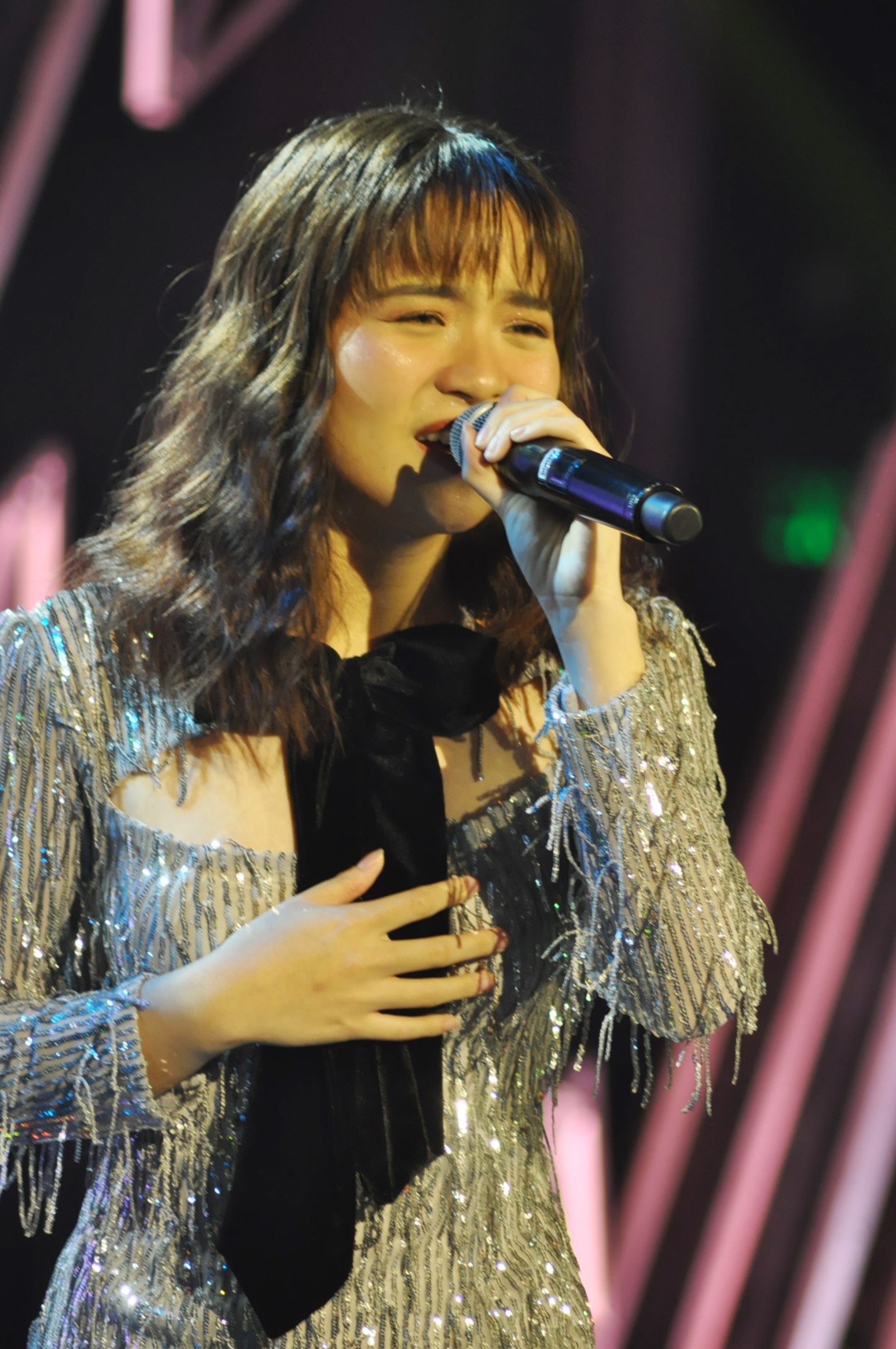 Sharlene San Pedro on iWantASAP in November 2019